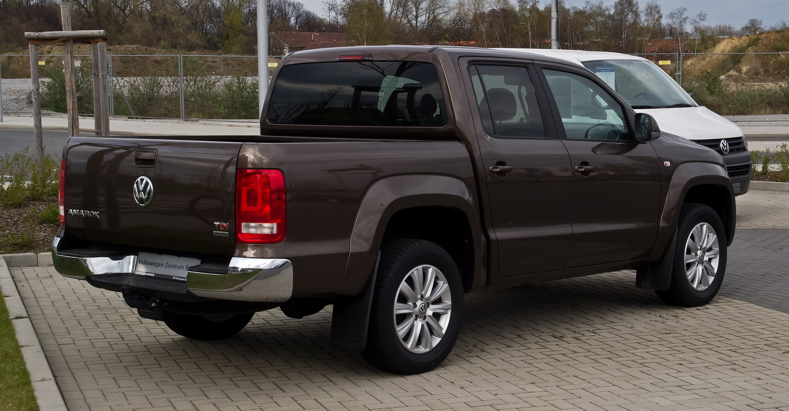 VW Amarok 2.0 TDI 4MOTION DC Highline